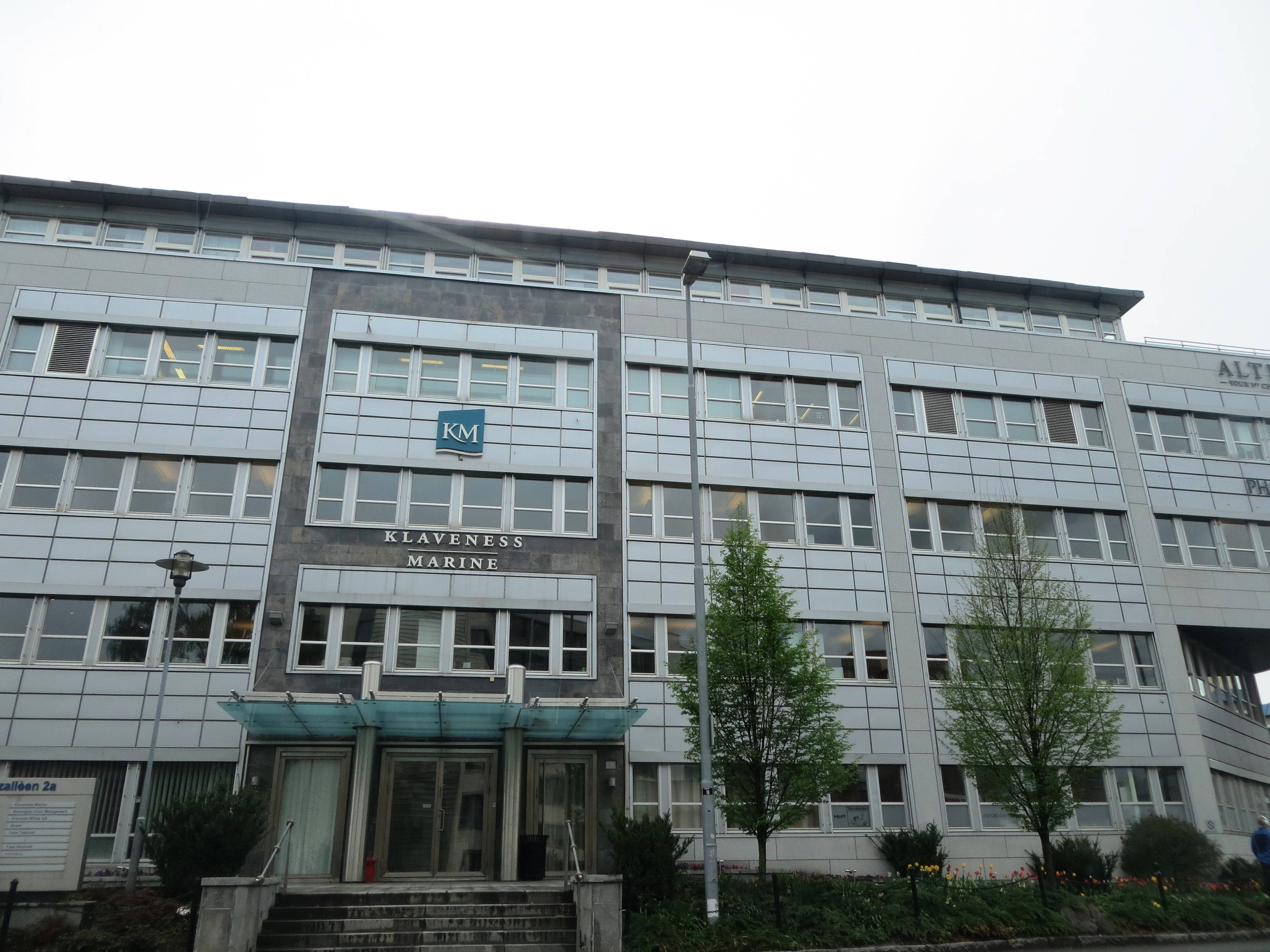 Image from the Skøyen area of western Oslo, Norway.